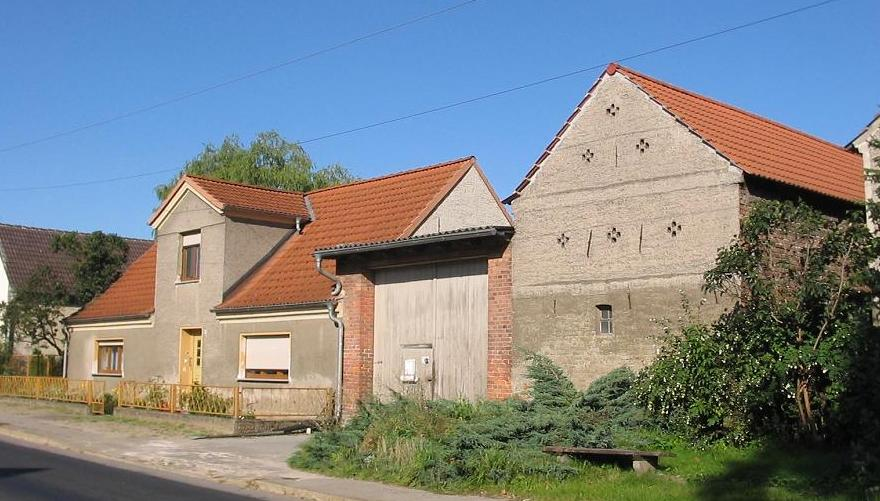 Building Dorfstraße (german for villagestreet ) No. 9. The village Gömnigk is a part of the town Brück in the district Potsdam Mittelmark, state Brandenburg, Germany, at the border to the natural preserve Naturpark Hoher Fläming.